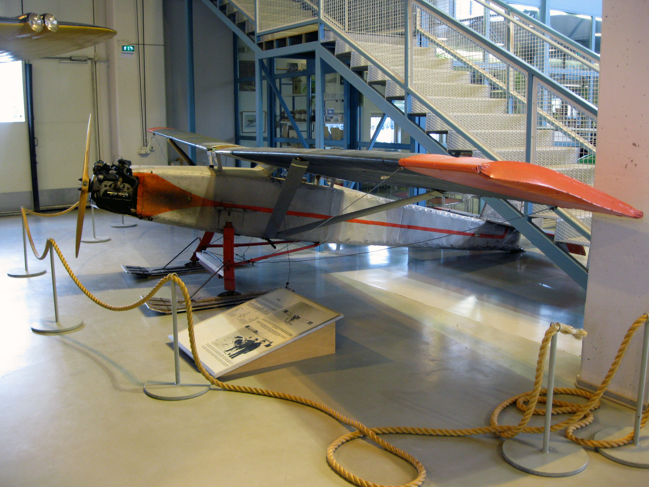 Finnish home-built aircraft built by Raimo Paatalo named Tiira in the Aviation Museum of Central Finland.